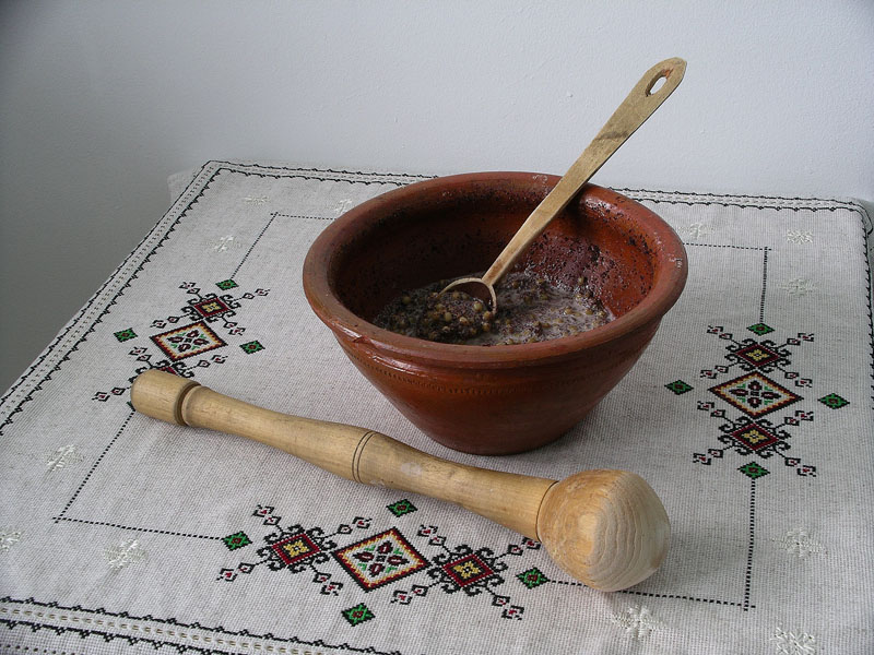 Kutya - traditional ukrainian Christmas food Kutya is also traditional funeral food in Russia.